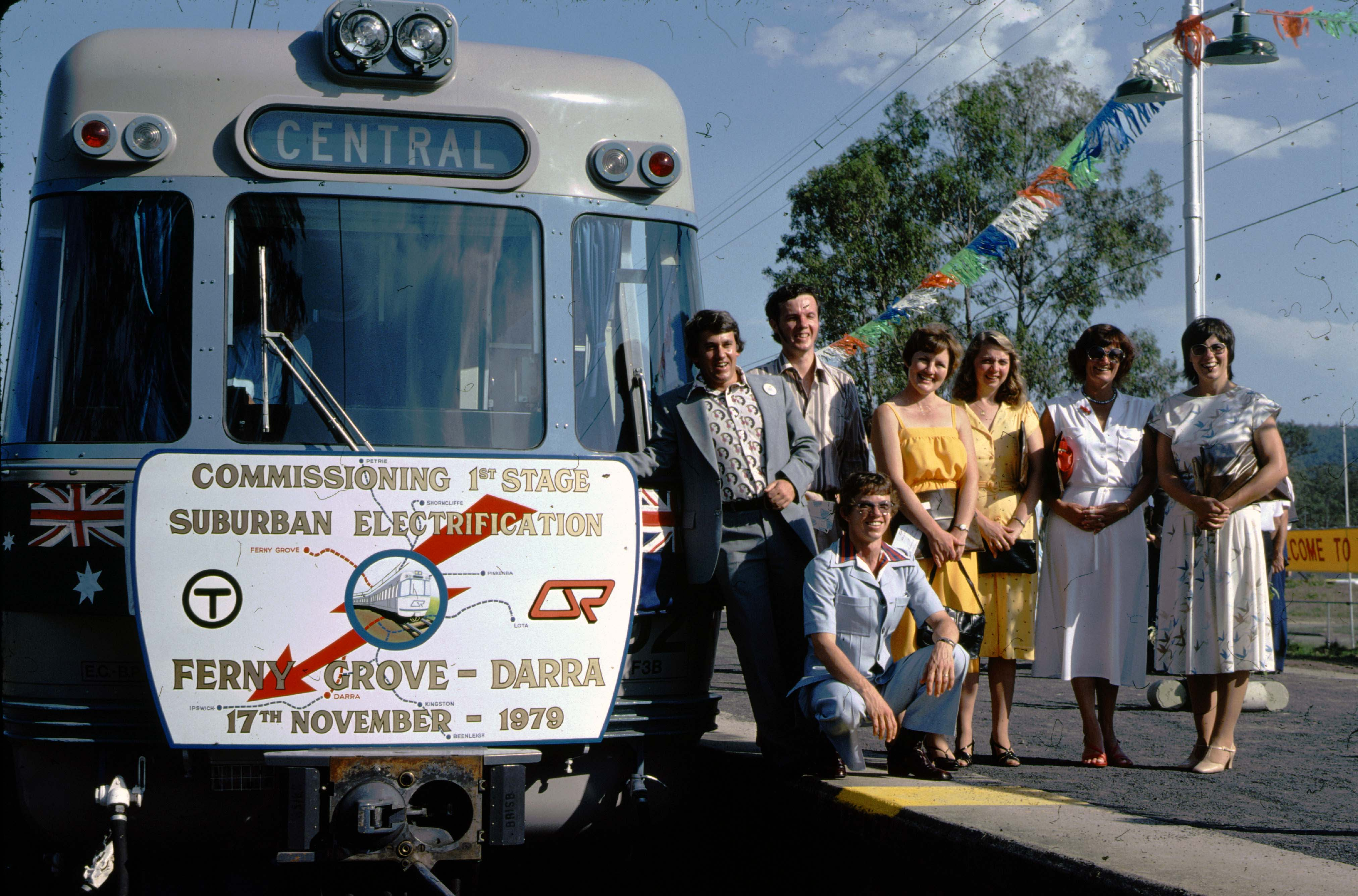 Queensland Rail EMU at Ferny Grove station for the opening of the first stage of the rail electrification in Queensland.